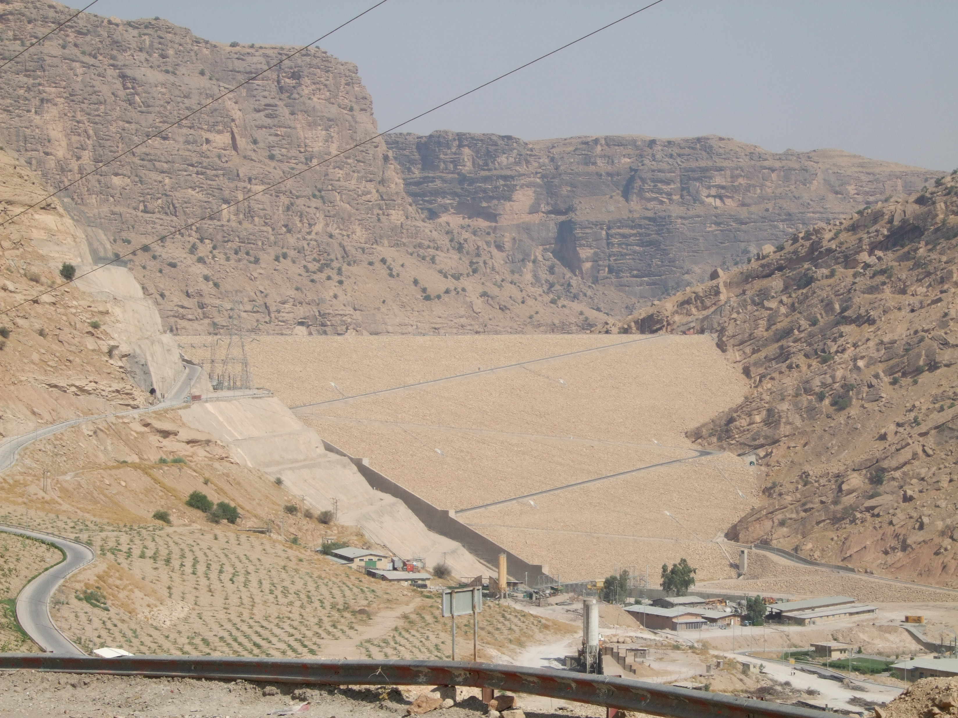 Masdsched-Soleyman - Dam